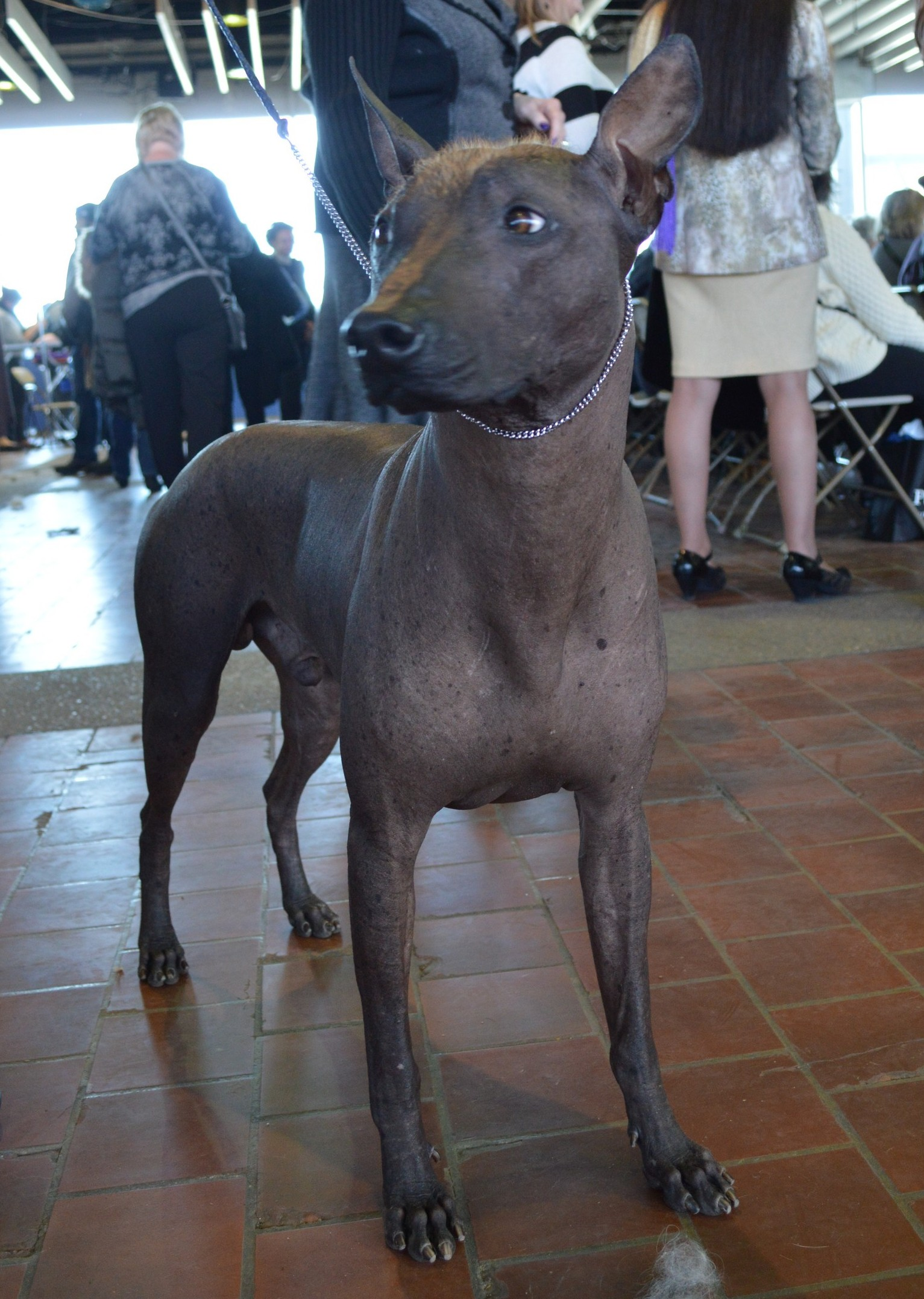 XoloitzquintlePlease consider linking directly to our website, rather than Flickr if you use this photo. Thanks for your support. 2015 Westminster Kennel Club Dog Show, New York City.